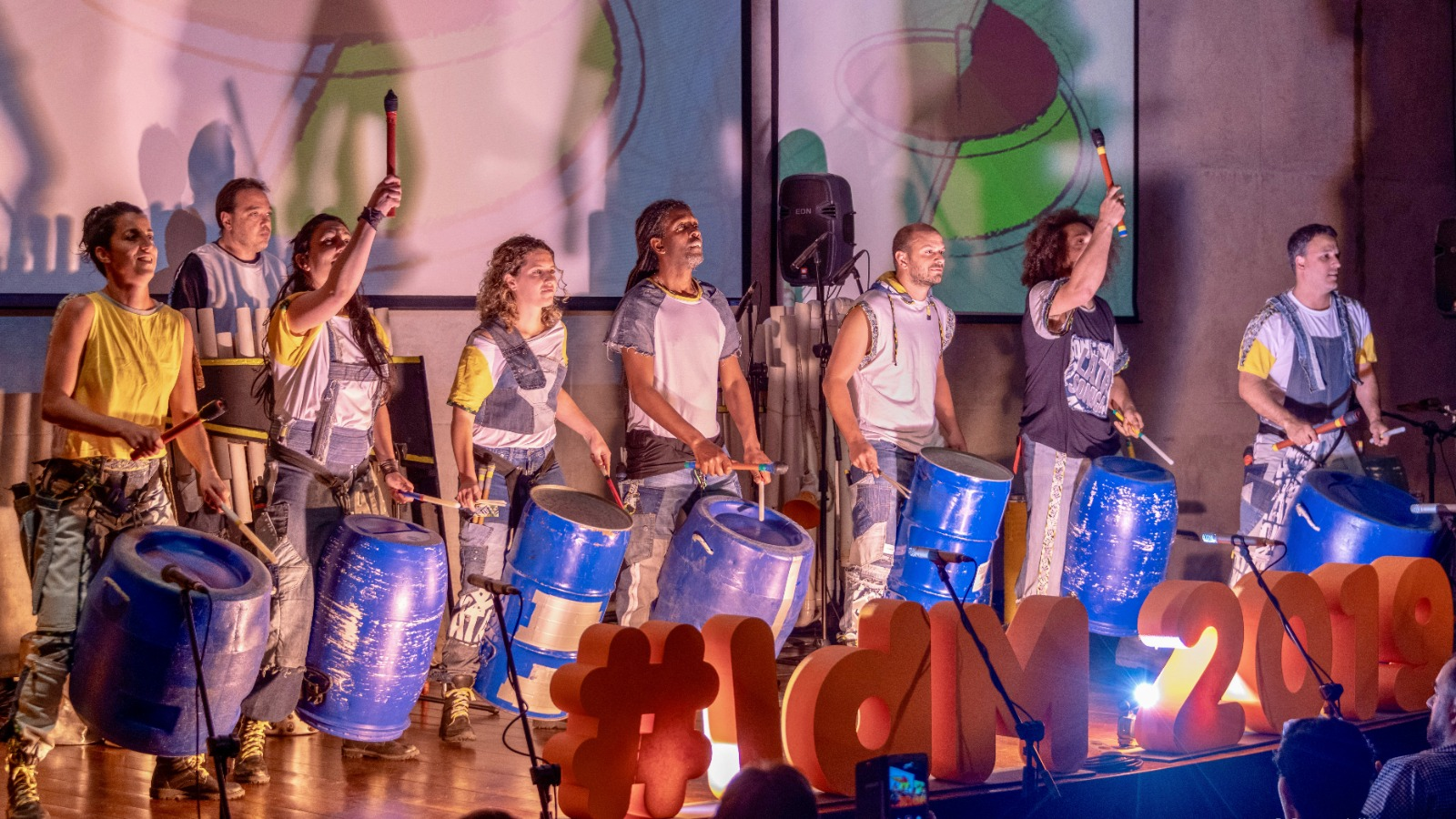 Latasónica in the Engineering faculty, "Engineering Show 2019", Montevideo, Uruguay.